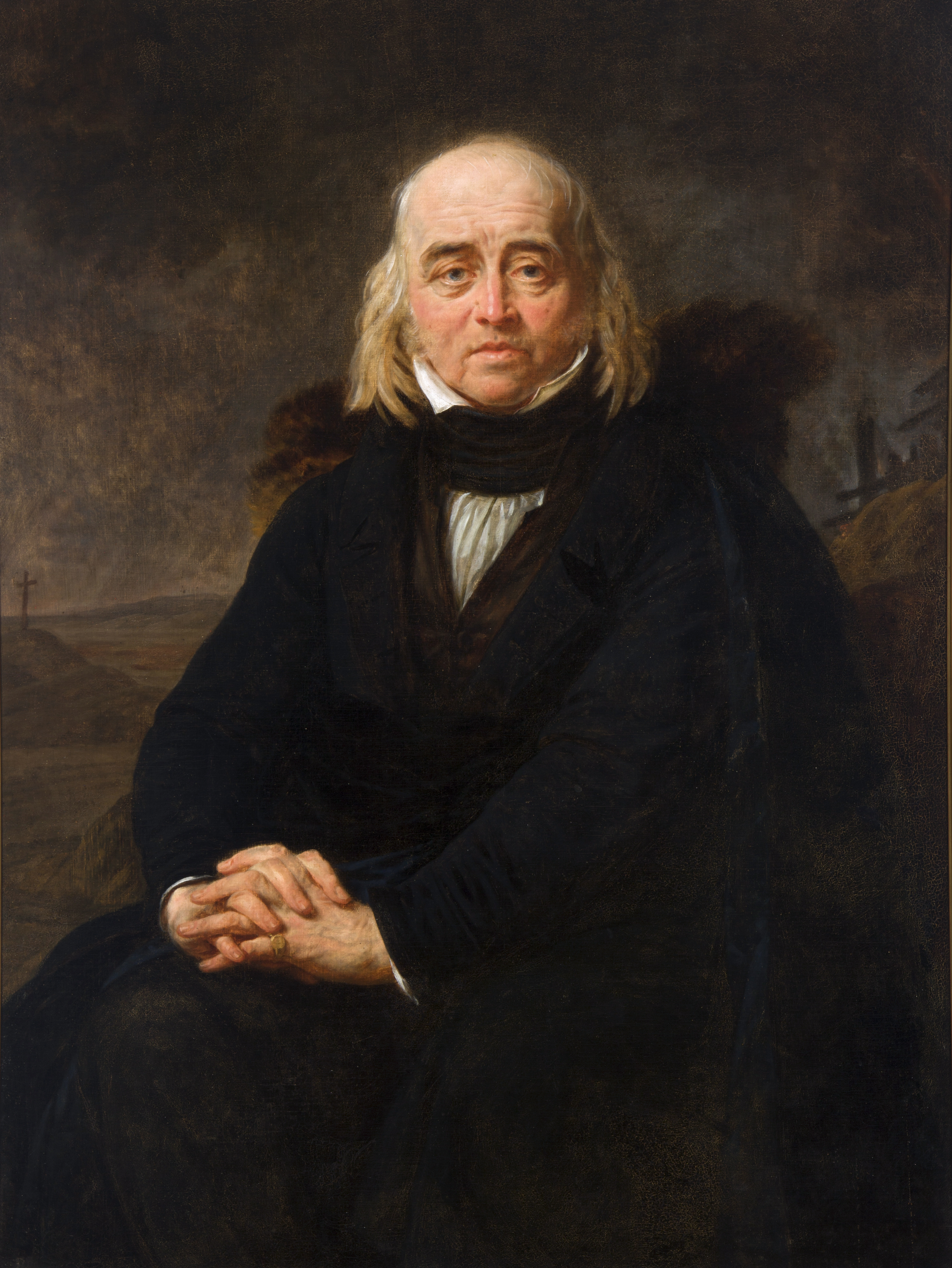 Julian Ursyn Niemcewicz